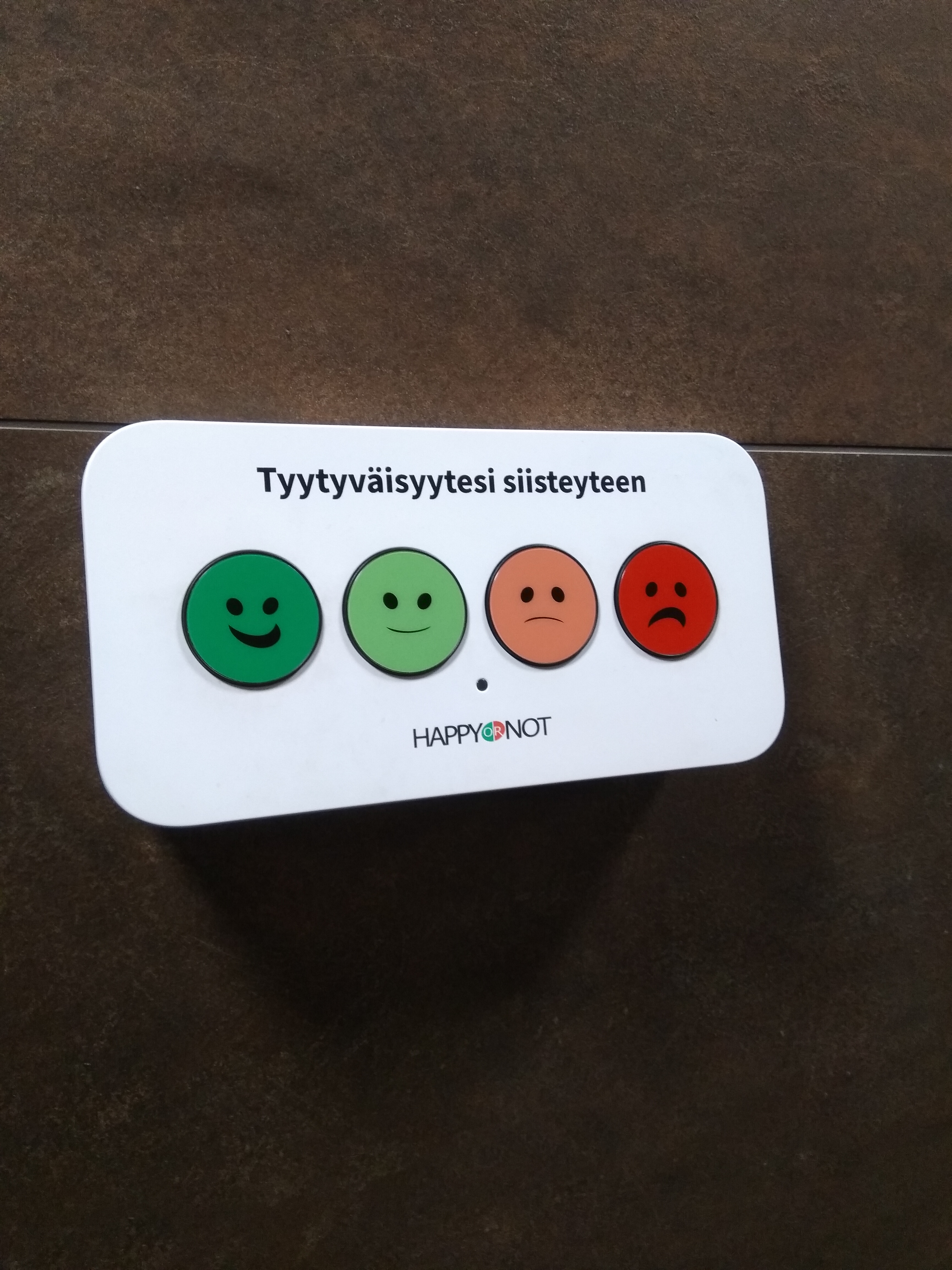 HappyOrNot terminal measuring customer satisfaction at Tampere